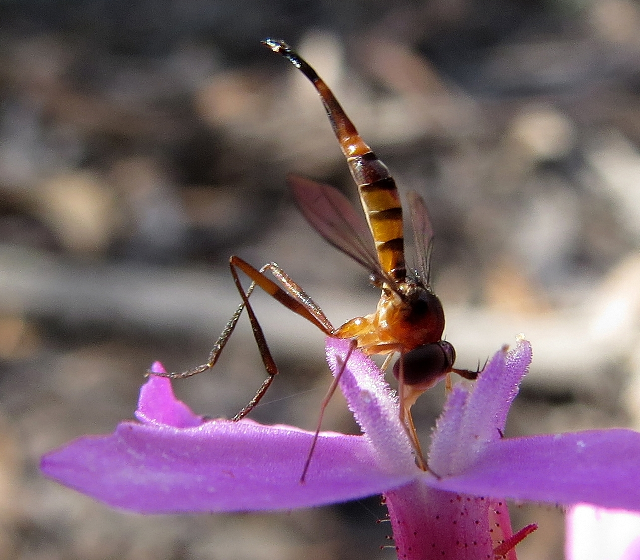 A fly with a long tapered ovipositor and dark stripes on its abdomen. Stylogaster macalpini, family Conopidae on a Stylidium flower. Hanging Mountain, Deua National Park, NSW, Australia, February 2014. Thanks to David McAlpine, after whom the fly is named, and Shane McEvey, for help with identification. According ot Margaret Schneider, A taxonomic revision of Australian Conopidae (Insecta: Diptera), Zootaxa 2581: 1–246 (31 Aug. 2010): There are three species of Stylogaster found in Australia. Stylogaster liepae is found on Lord Howe Island; Stylogaster frauci has no dark bands on the abdomen and is found in eastern Queensland; Stylogaster macalpini has black bands across the posterior margins of the abdomen, and is found in eastern Australian mainland and Tasmania. The original descriptions are found in: Smith, KGV (1979) . The Genus Stylogaster (Diptera: Conopidae: Stylogasterinae) in the Australian Region. Australian Journal of Zoology 27, 303–310.